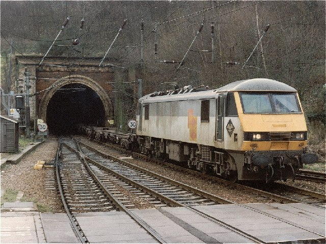 Stoke Hill Tunnel. Electric locomotive 90137 heads west out of Ipswich tunnel with container flats